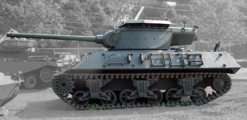 90 mm Gun Motor Carriage M36B2 on display at the Military Museum of the Southern New England in Danbury, CT. The picture taken September 9, 2006.